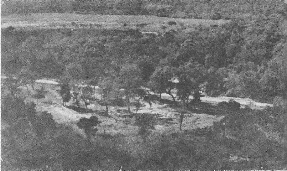 An aereal view of Ruins of Km 75 in Chaco province, Argentina. You can see the forest, the tiny cleaned area where archaeological work was made (in the front) and ex-National Road Nº 95.